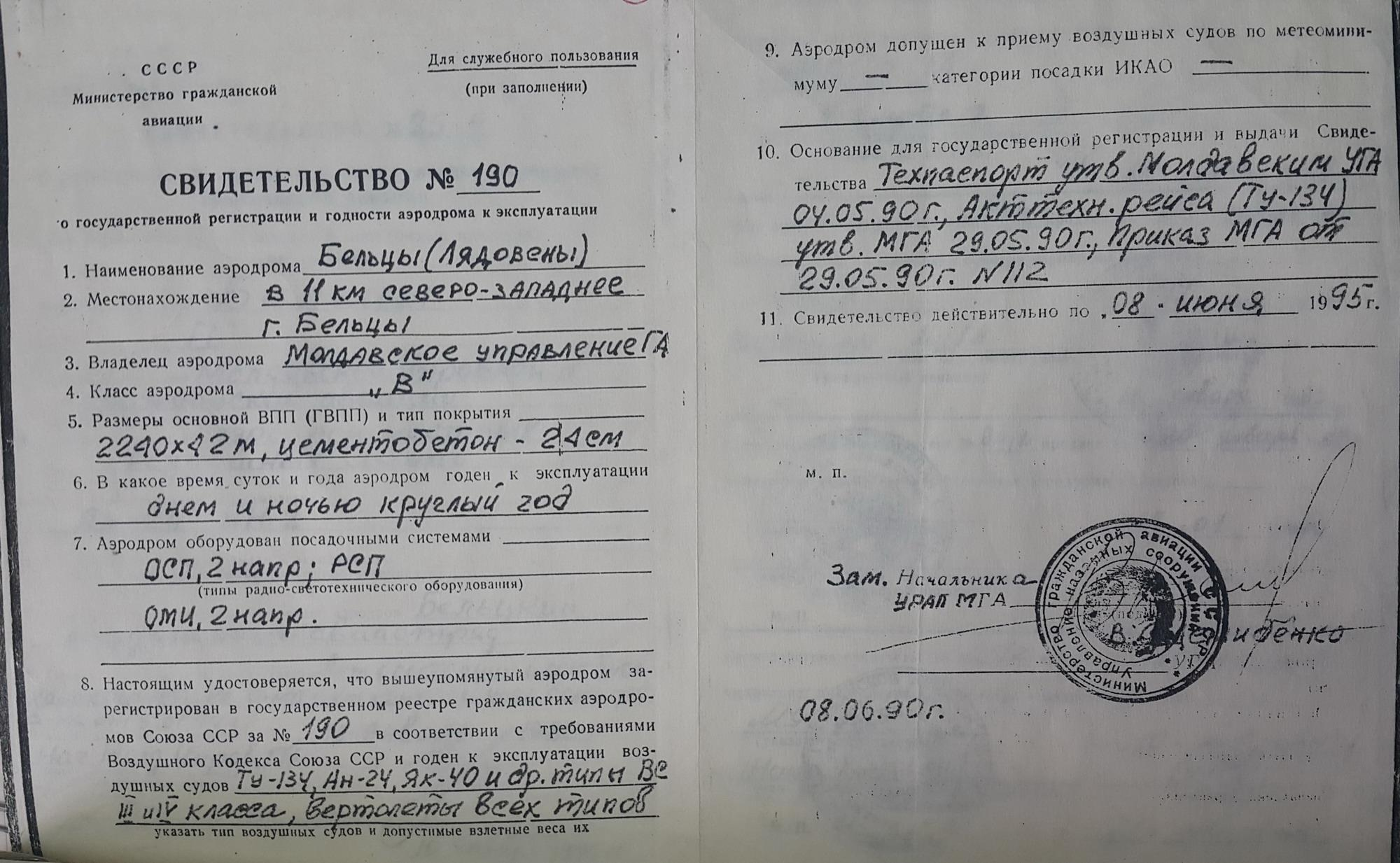 Certificate No 190 on site registration and confirmation of operation of aerodrome of Balti-Leadoveni airport